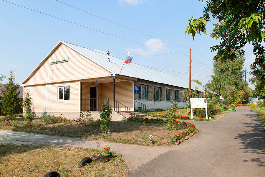 Sannikovo (Altai Krai). Administration